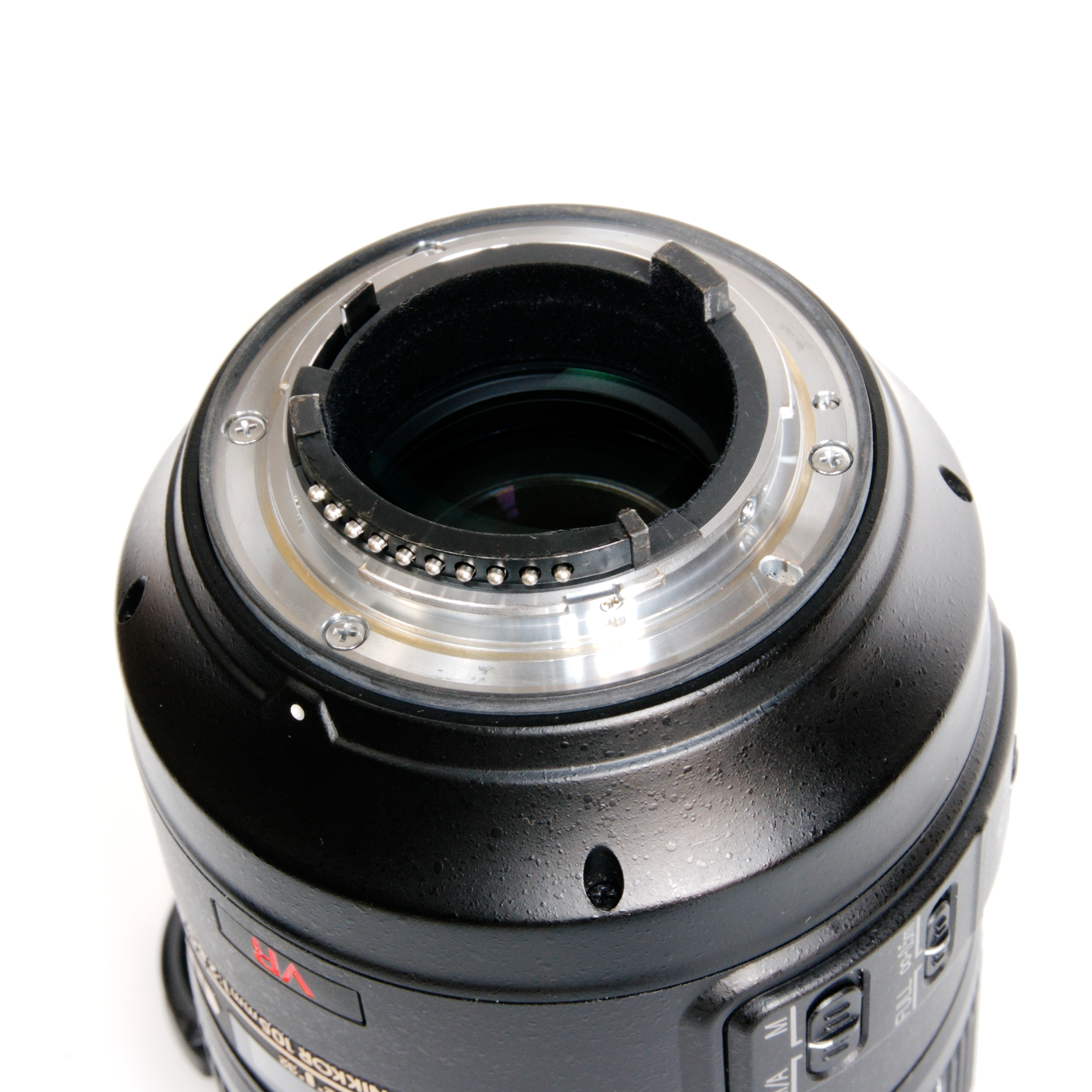 Bayonet of a Micro-Nikkor AF-S VR 105mm f/2.8 IF-ED.